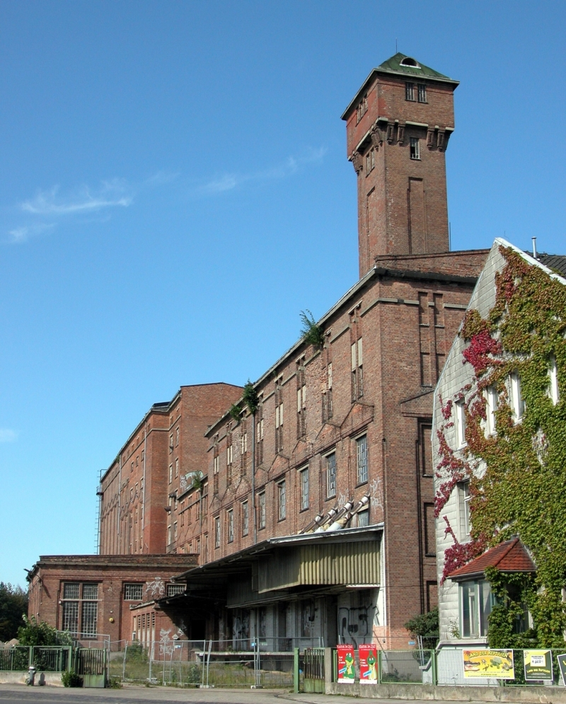 Braunschweig, Germany: Rye Mill Lehndorf as seen from the south.